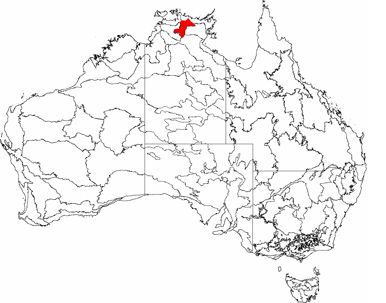 This is a map of the Interim Biogeographic Regionalisation of Australia (IBRA), with state boundaries overlaid. The Arnhem Plateau region is shown in red.